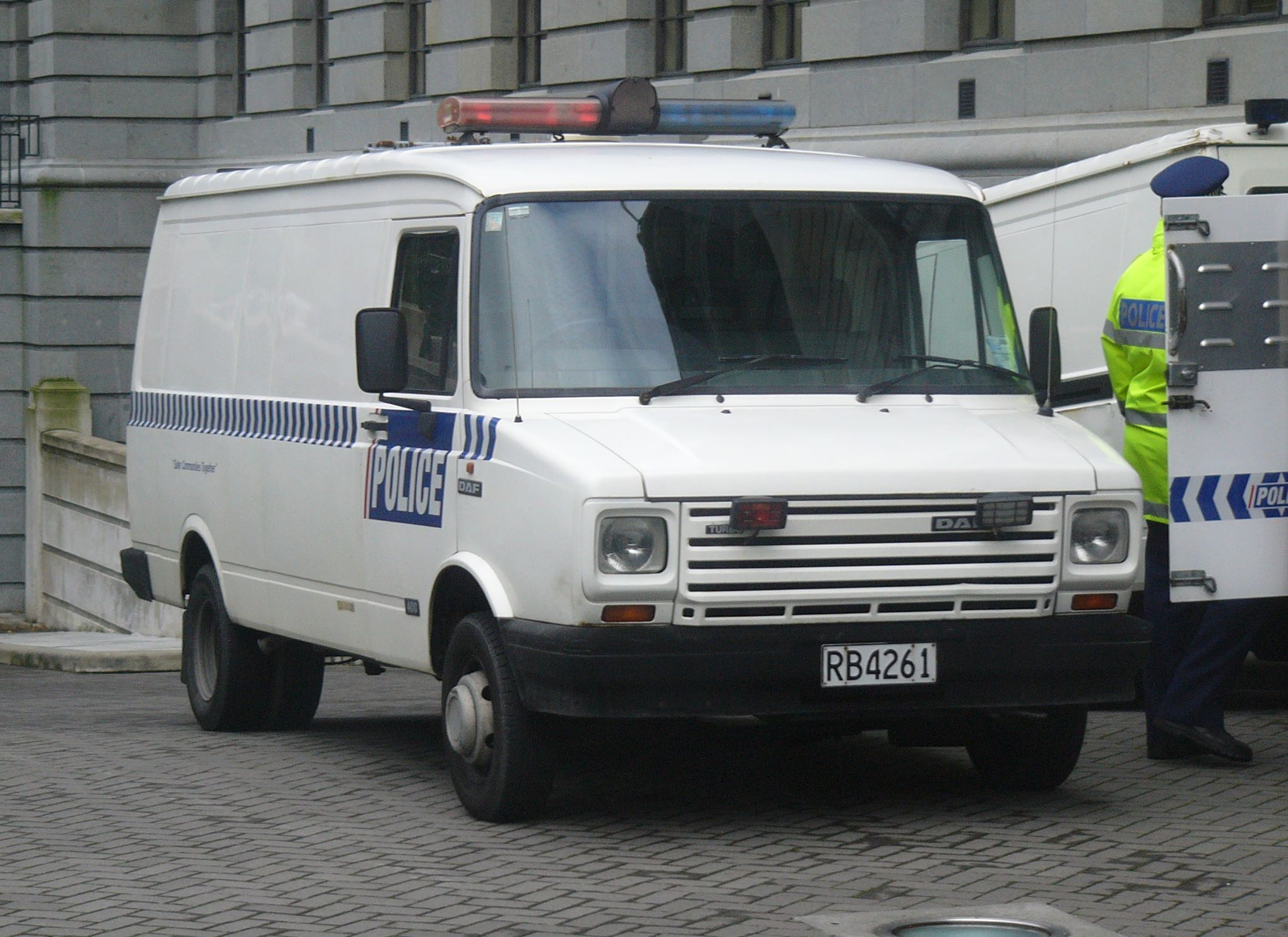 More photos at